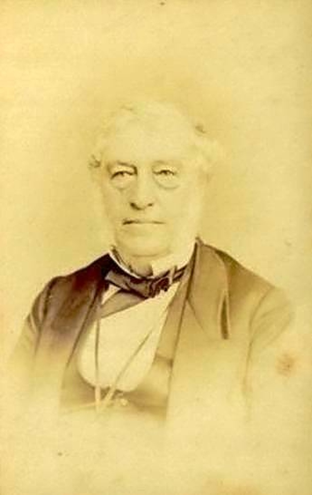 John William Middleton Esq., President Leeds Law Society